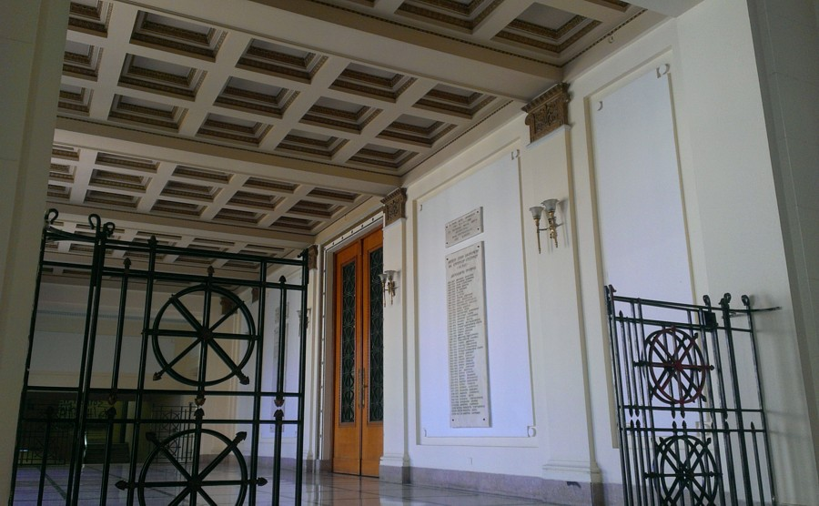 athens